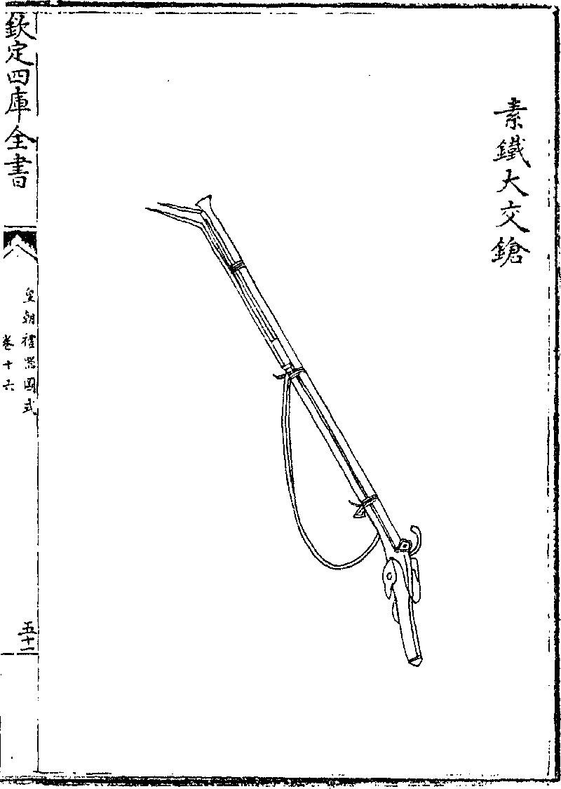 A drawing of a Qing period Jiao Qiang (or Jiao Chong - 交銃, lit. 'Jiaozhi Arquebus'). This type of firearm is similar to Zua Wa Chong (爪哇銃, Java arquebus).